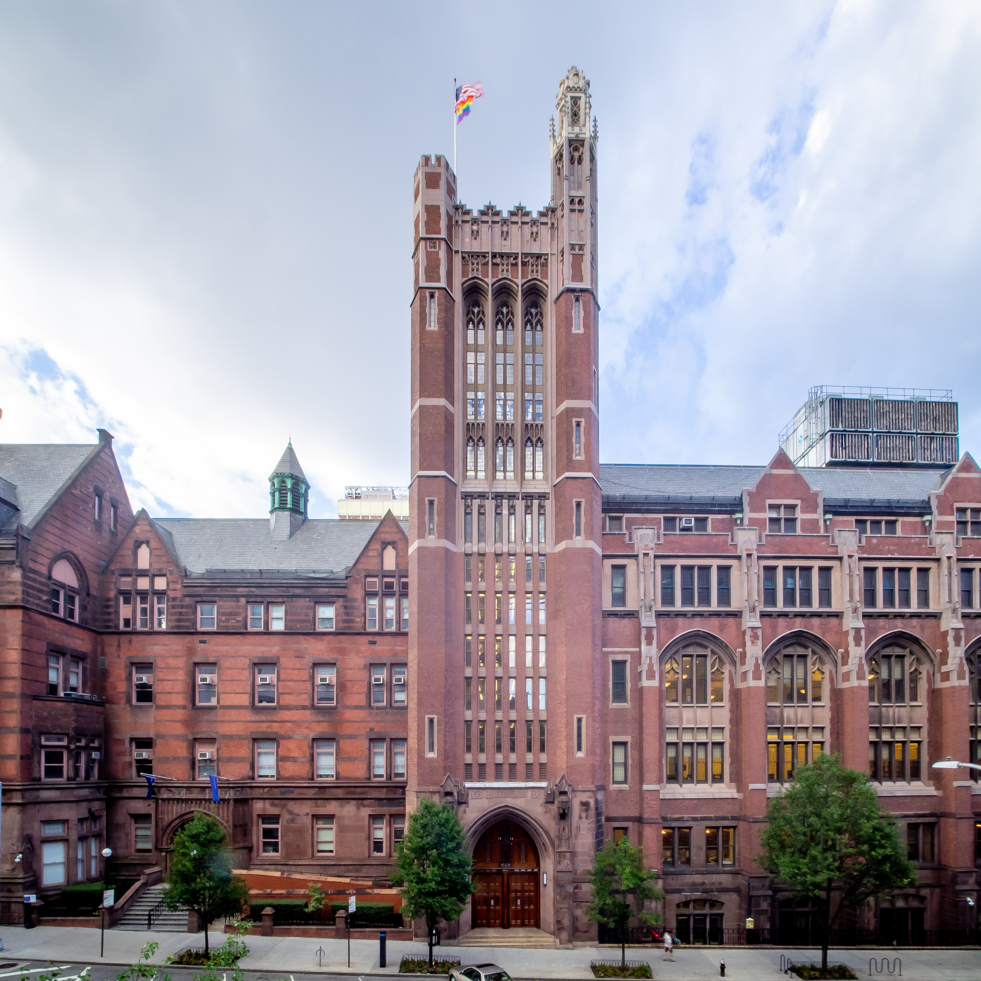 Morningside Heights, Manhattan, NYC